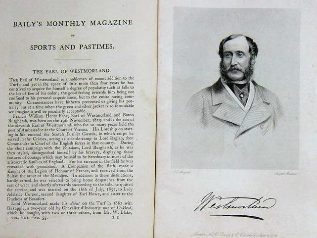 Francis Fane, 12th Earl of Westmorland, in Baily's Monthly Magazine, Sports and Pastimes.